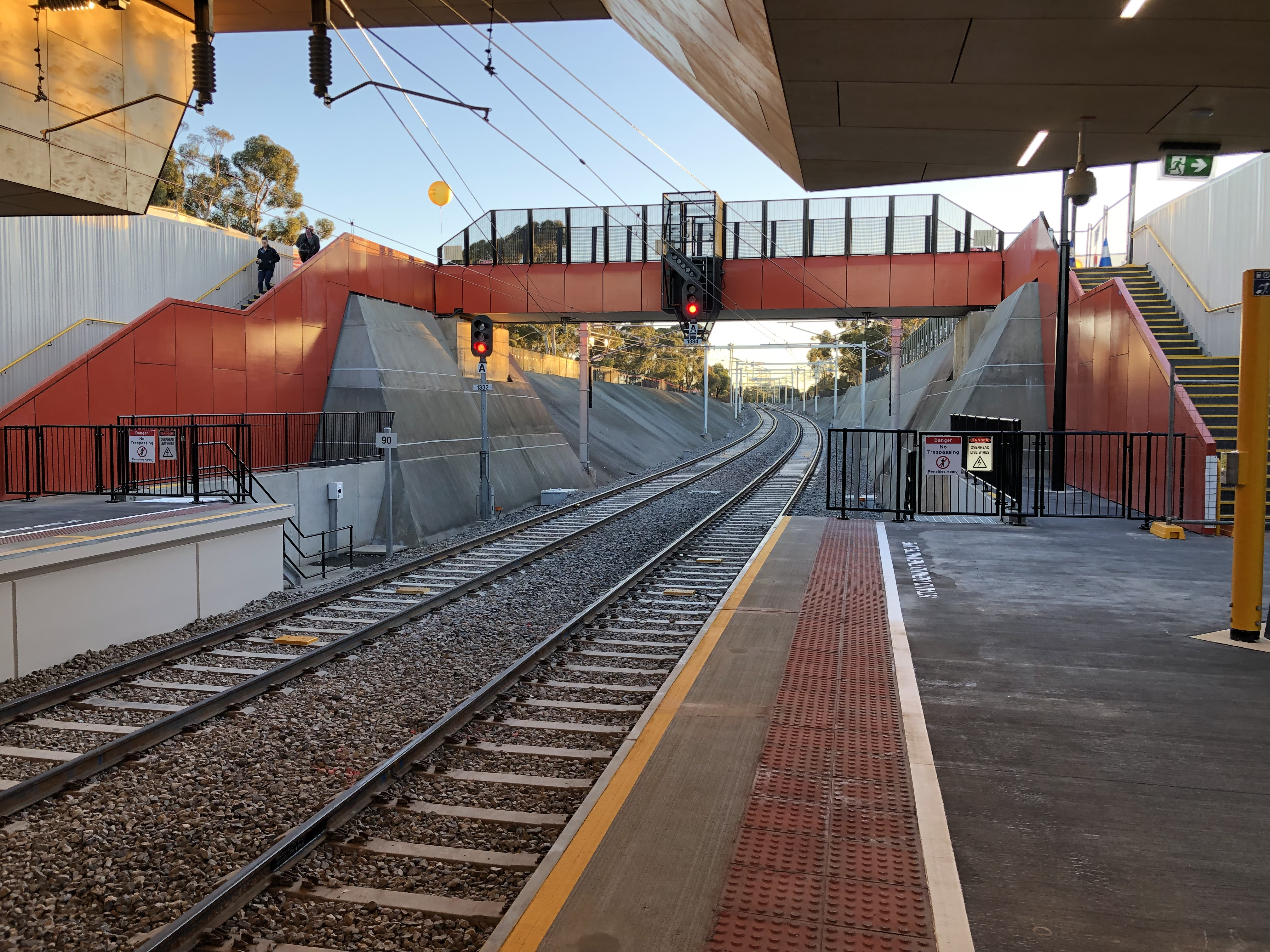 This photograph shows a picture taken from the New, lowered railway station in Oaklands Park, South Australia. It is pictured on the day of opening, Monday 6th May 2019.